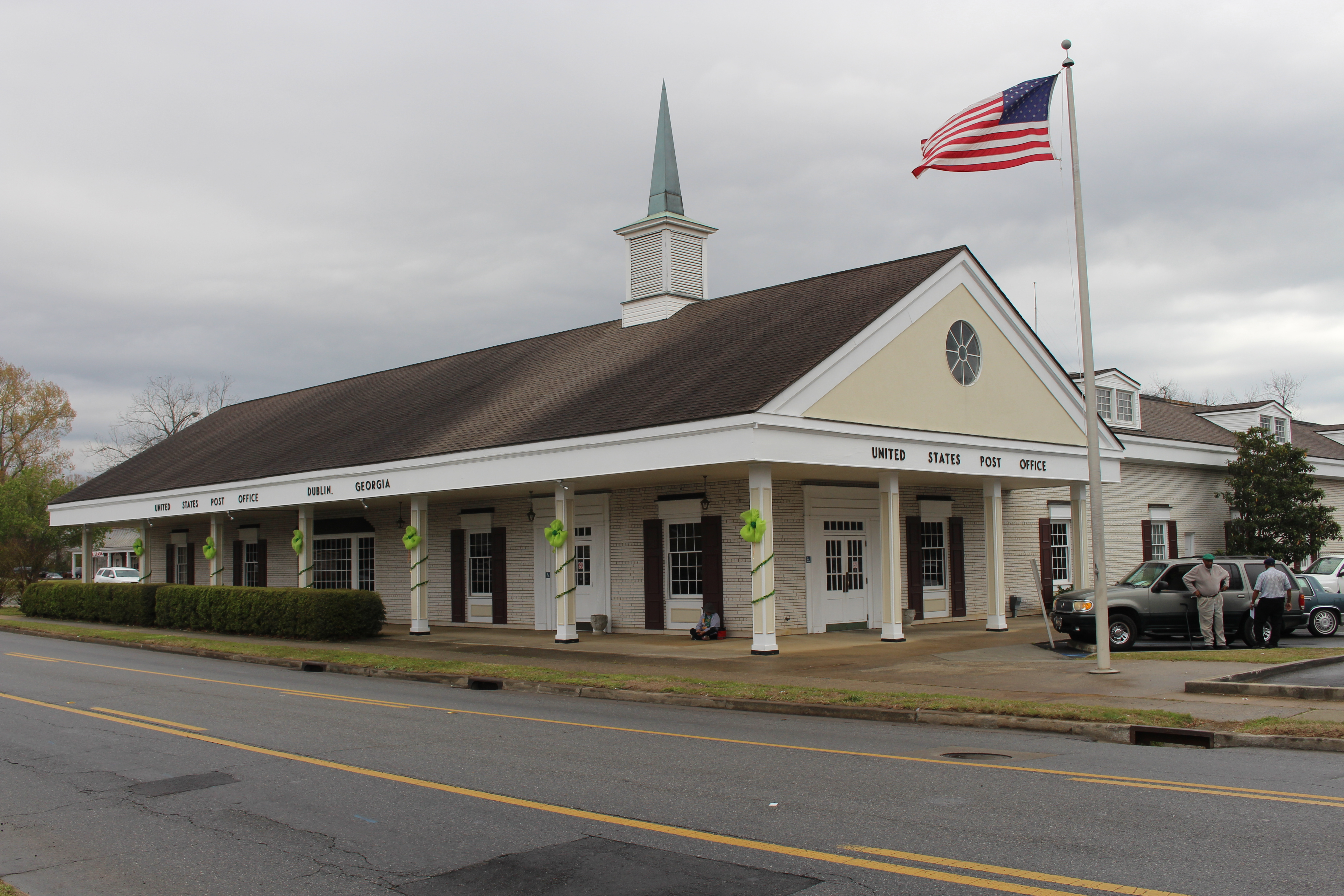 Post Office, Belleveue Ave, Dublin, Laurens County, Georgia